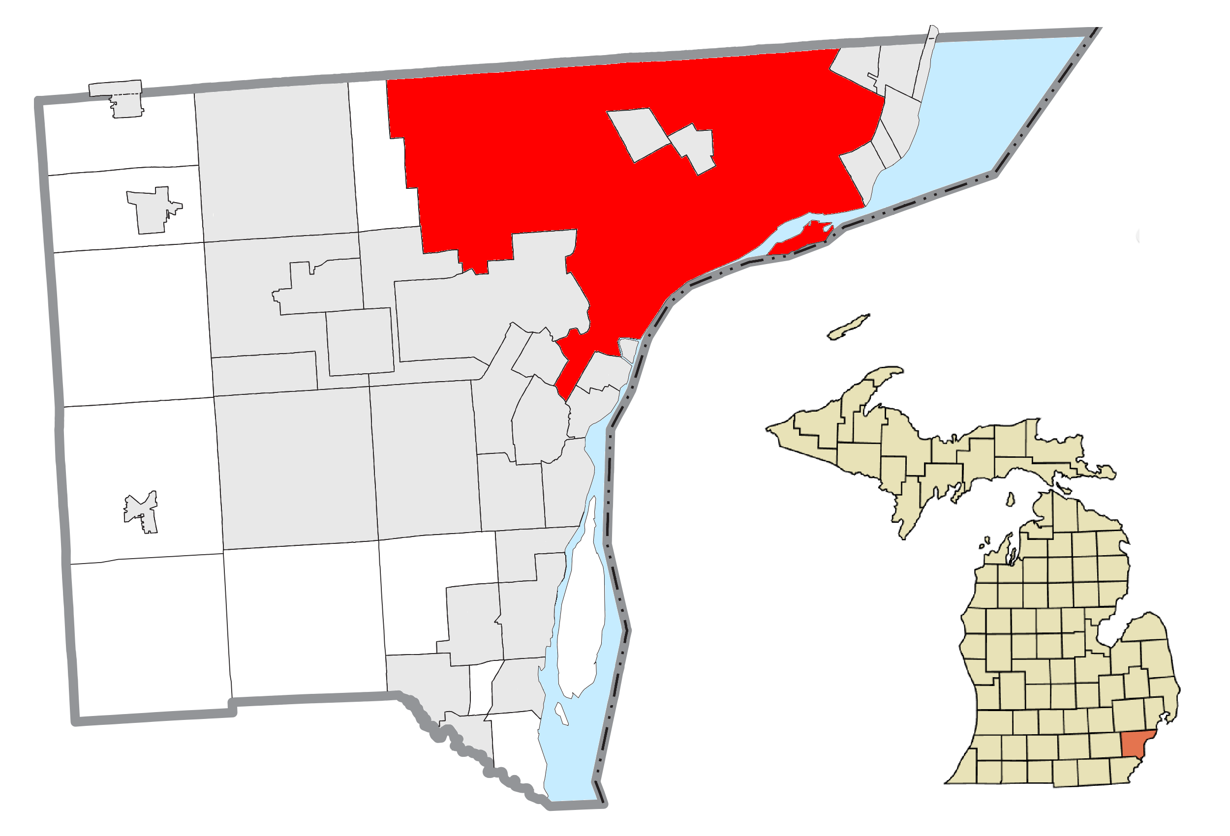 Detroit, MI